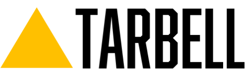 The logo for